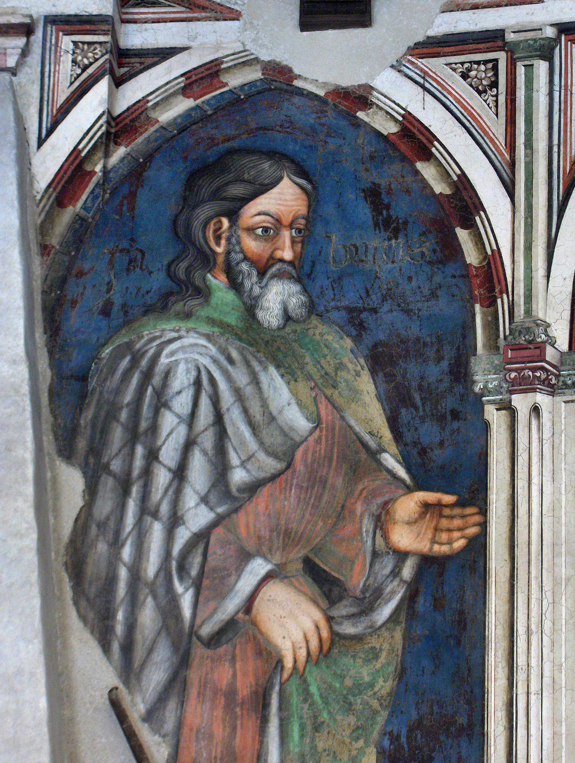 Fabritius, fresco in the Giants Room, Trinci Palace, Foligno, Italy